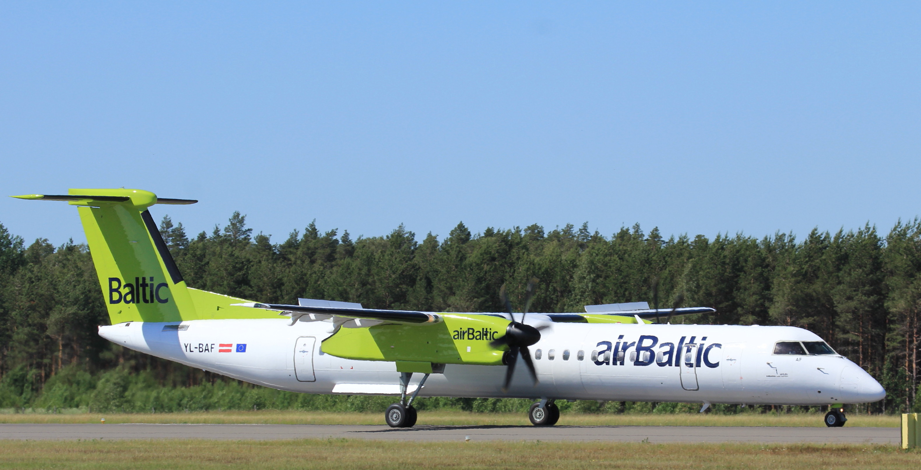 Air Baltic De Havilland Canada Dash 8 (YL-BAF) at Turku Airport, Finland in June 16, 2019